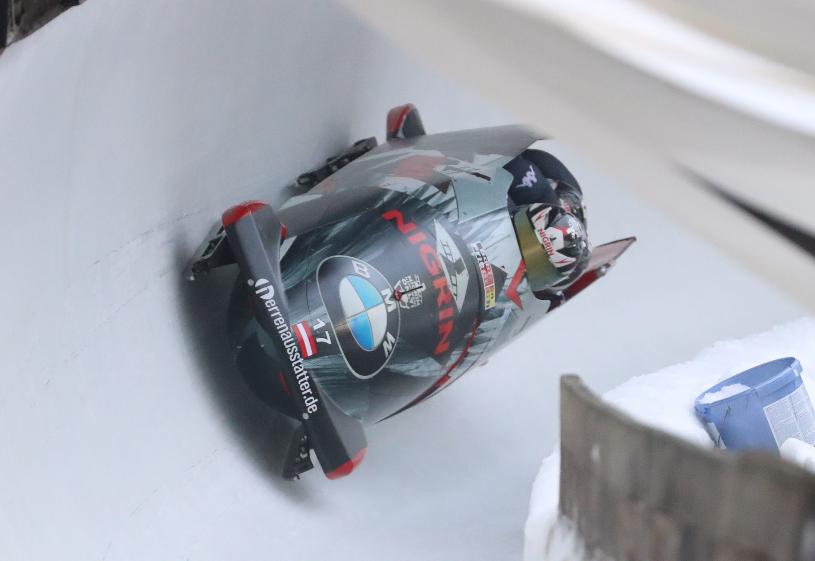 2nd run 4-man bobsleigh at the Bobsleigh and Skeleton World Championships 2020 in Altenberg